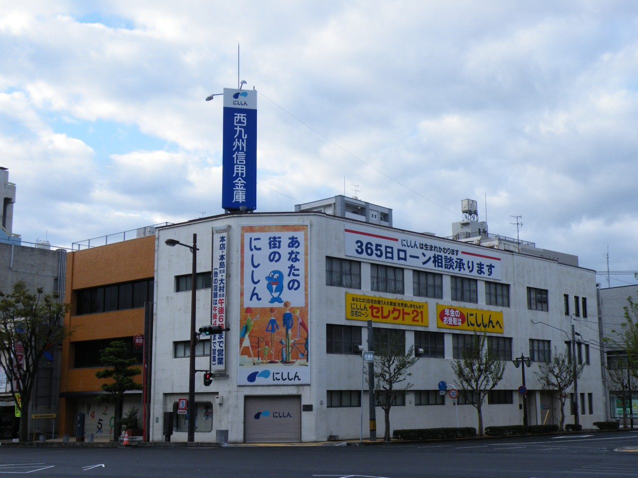 Nishi-Kyushu Credit Association Head Office